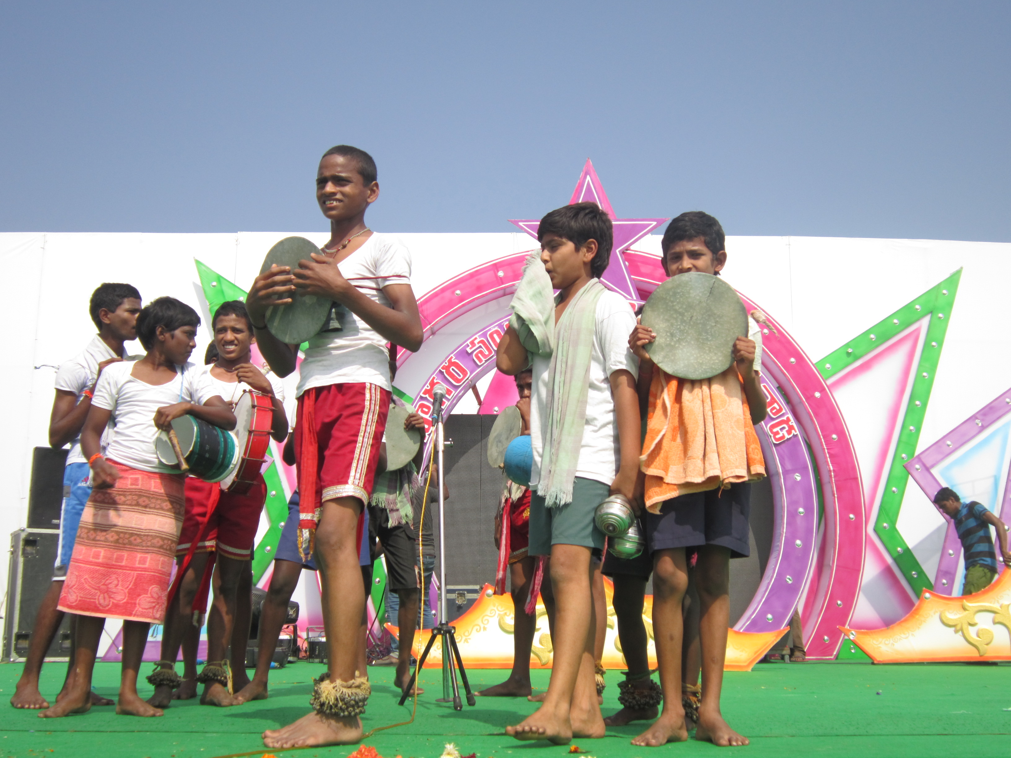 tappetagullu dance-Andhra folk dance